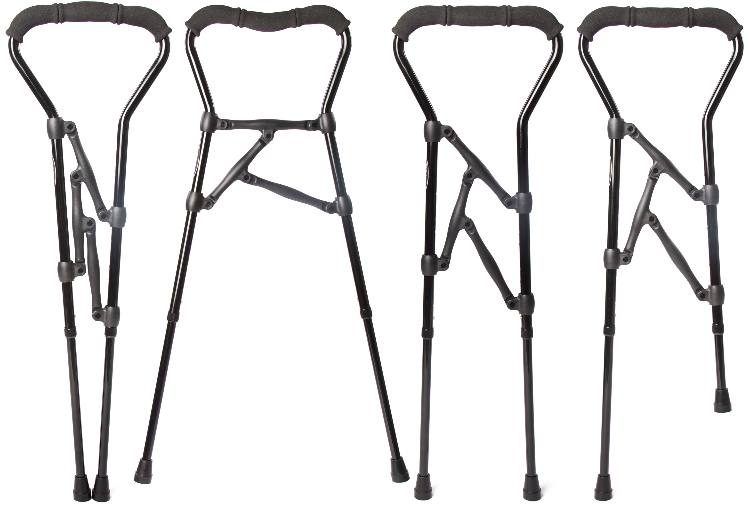 A Walker Cane Hybrid mobility aid shown in four different configurations.